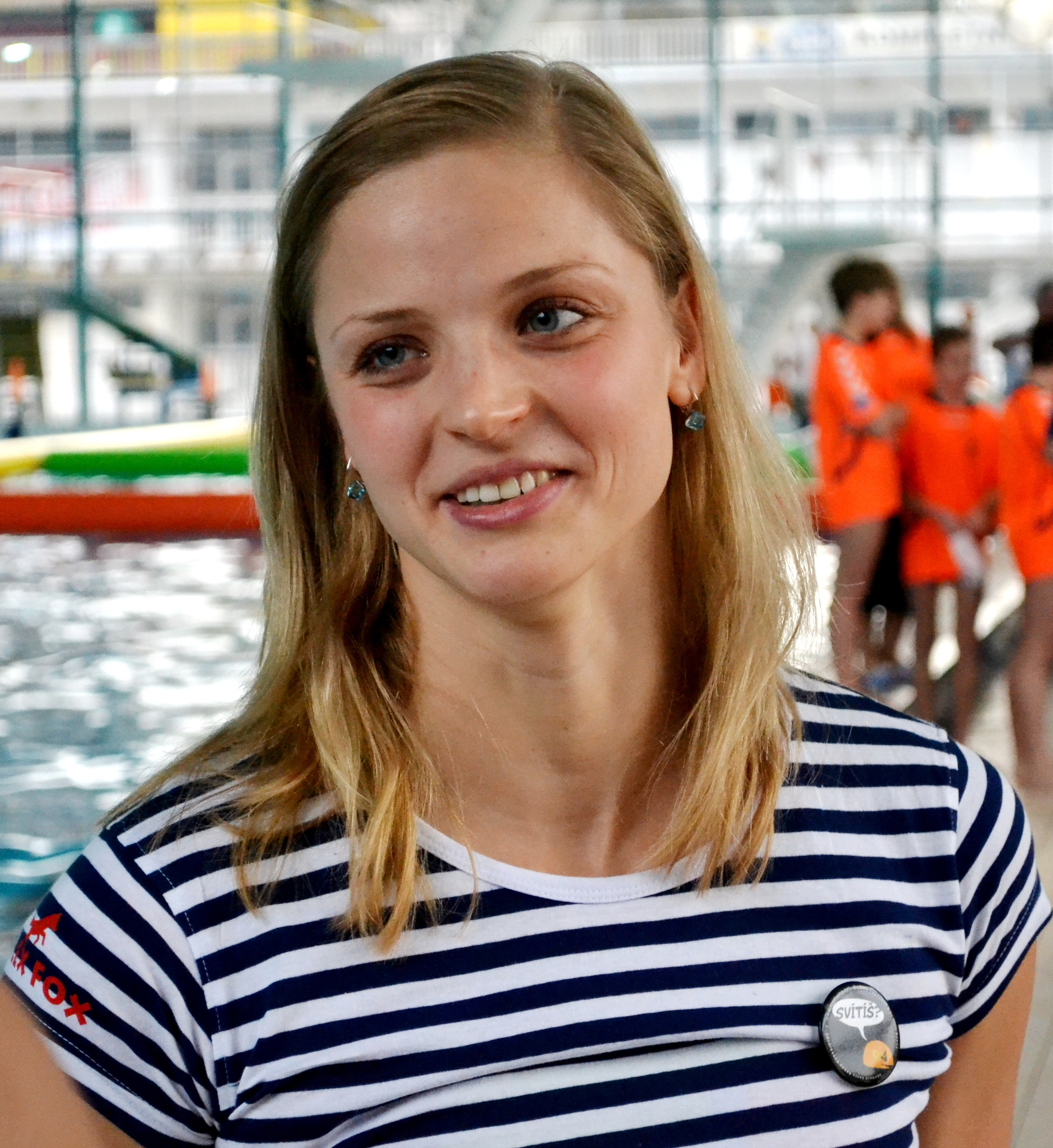 Simona Baumrtová, Czech swimmer